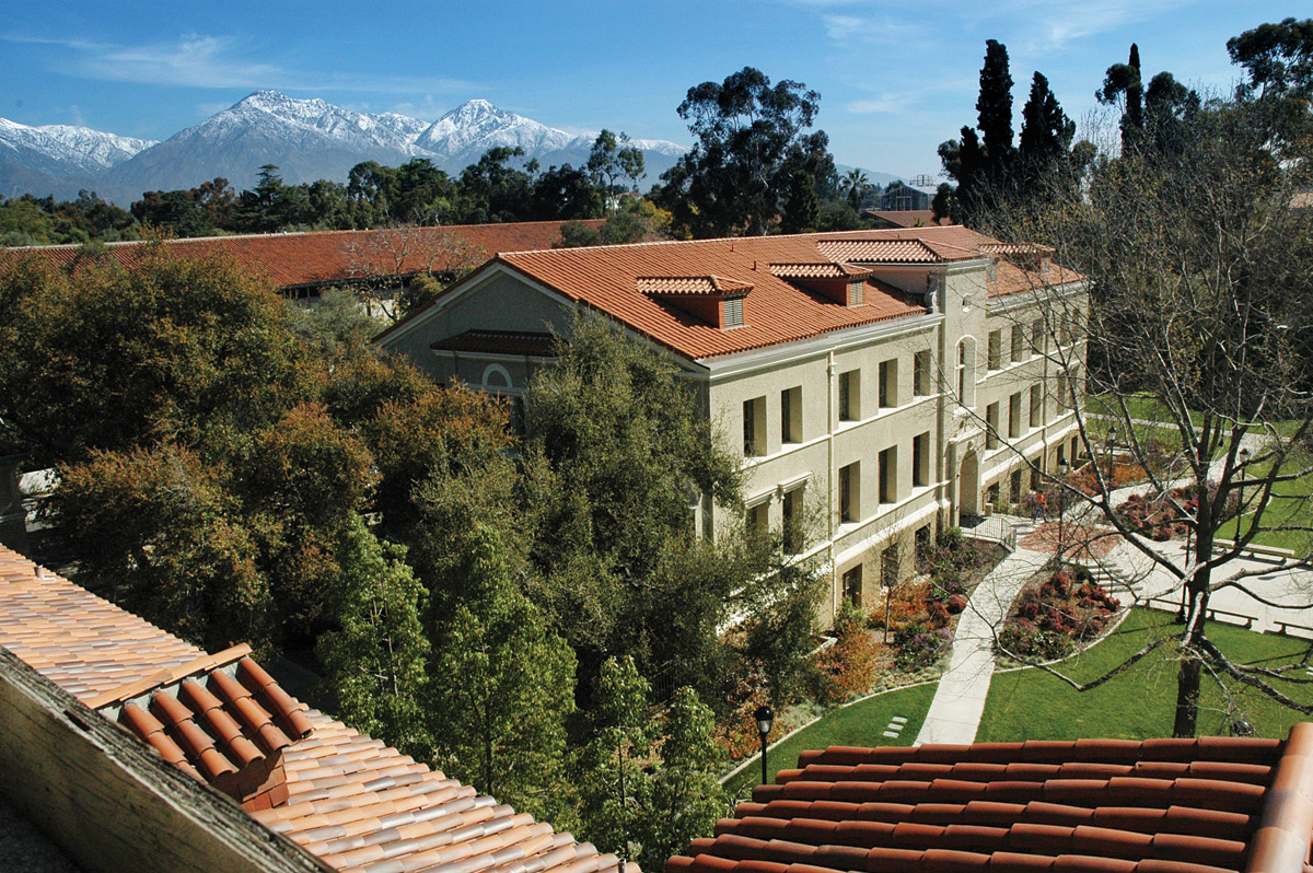 An aerial perspective of the Stanley Academic Quadrangle, with the San Gabriel Mountains in the distance